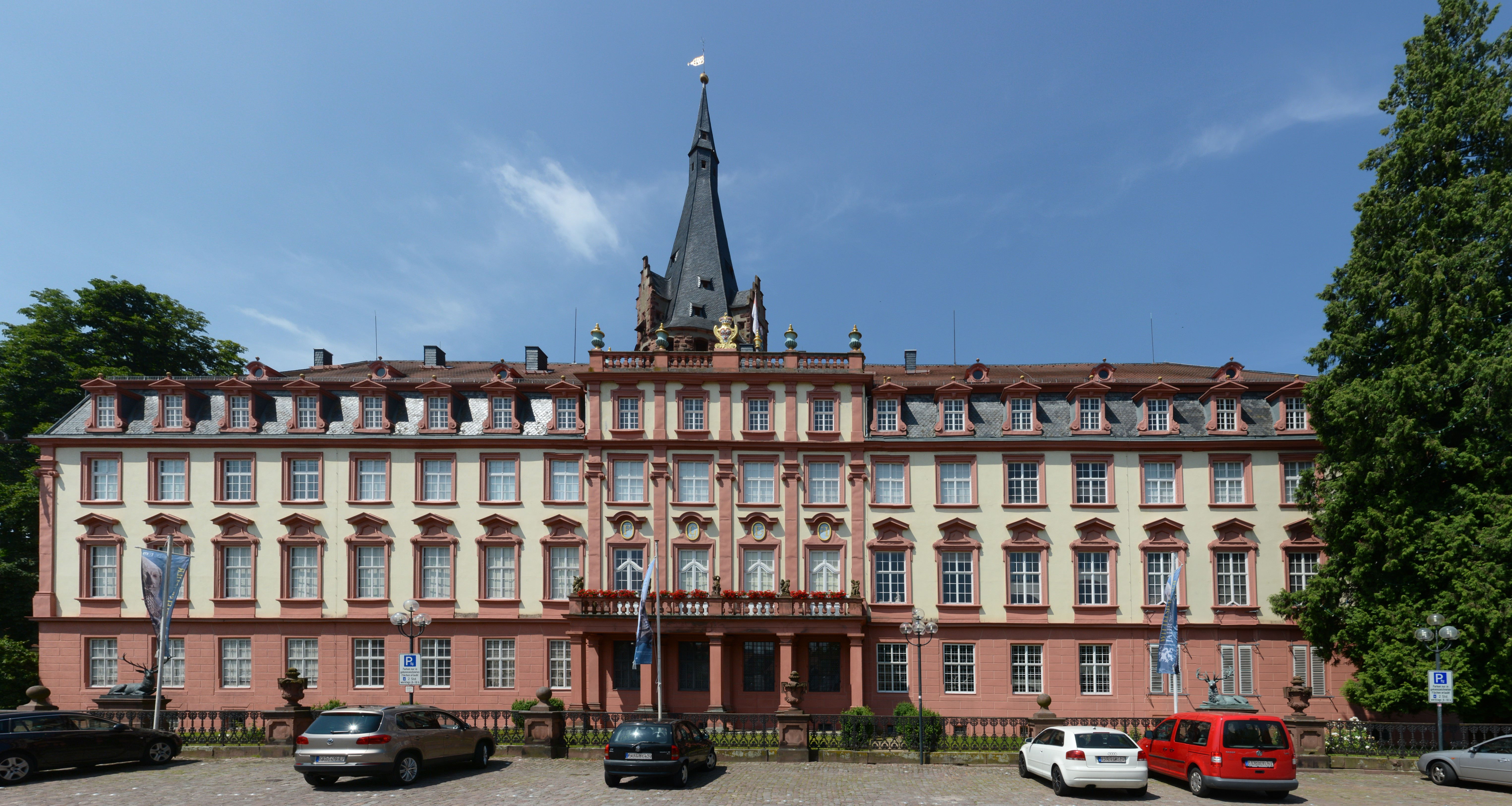 Castle of Erbach (odenwald), Germany, front at market place, 4 pictures stitched